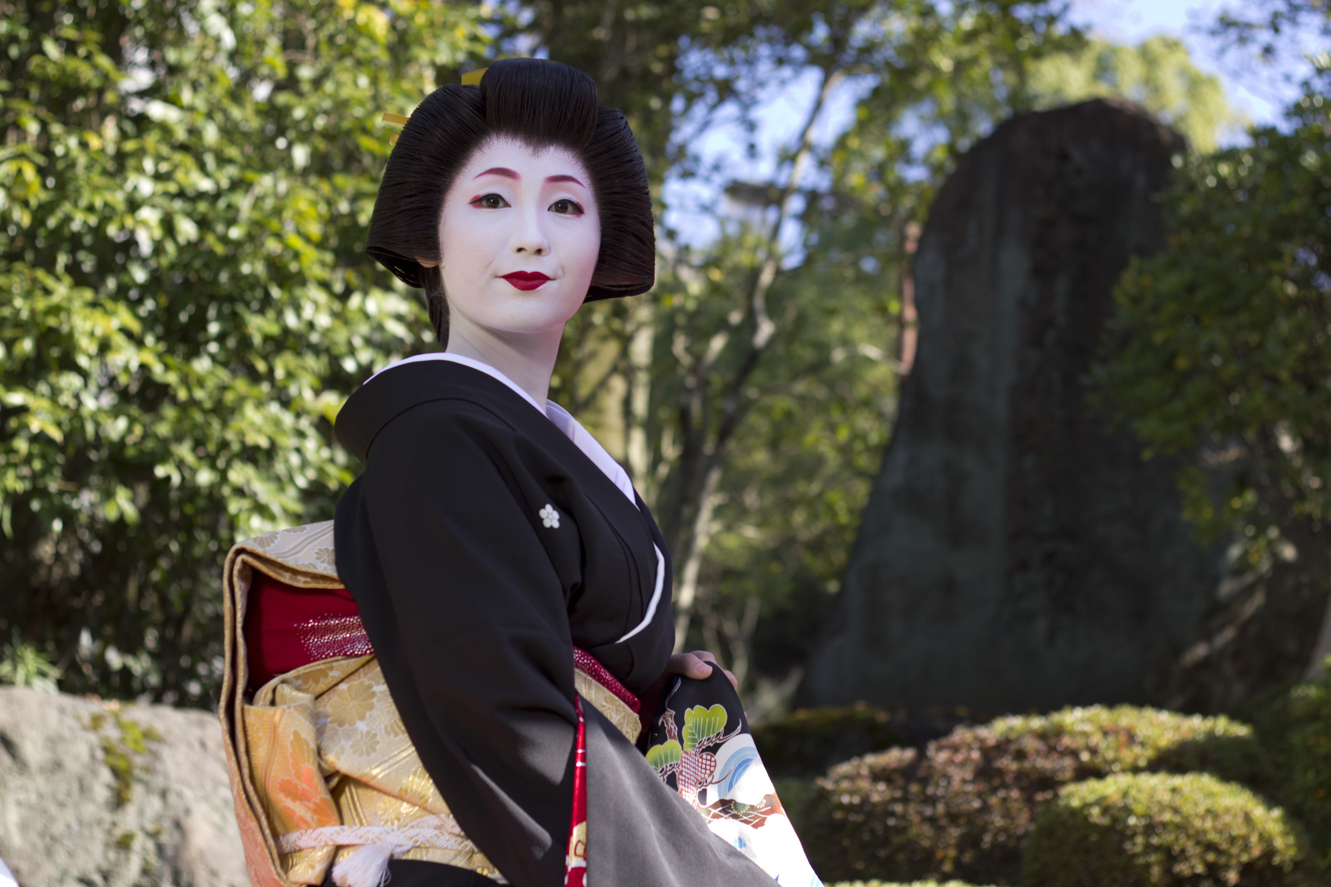 Gion geisha Sayaka wearing a kuro-tomesode. Photo by